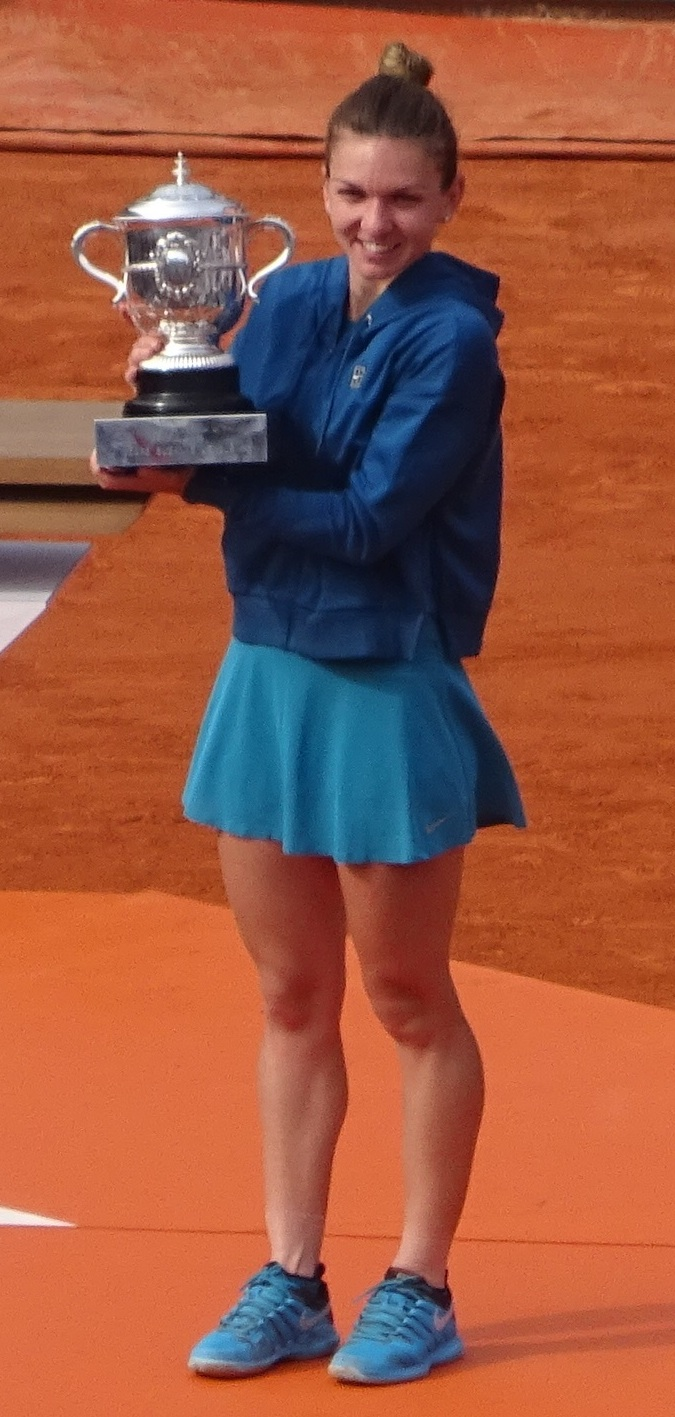 Simona Halep won her first grandslam singles title at the Roland Garros 2018